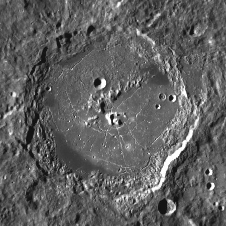 LROC image of Humboldt crater on the Moon